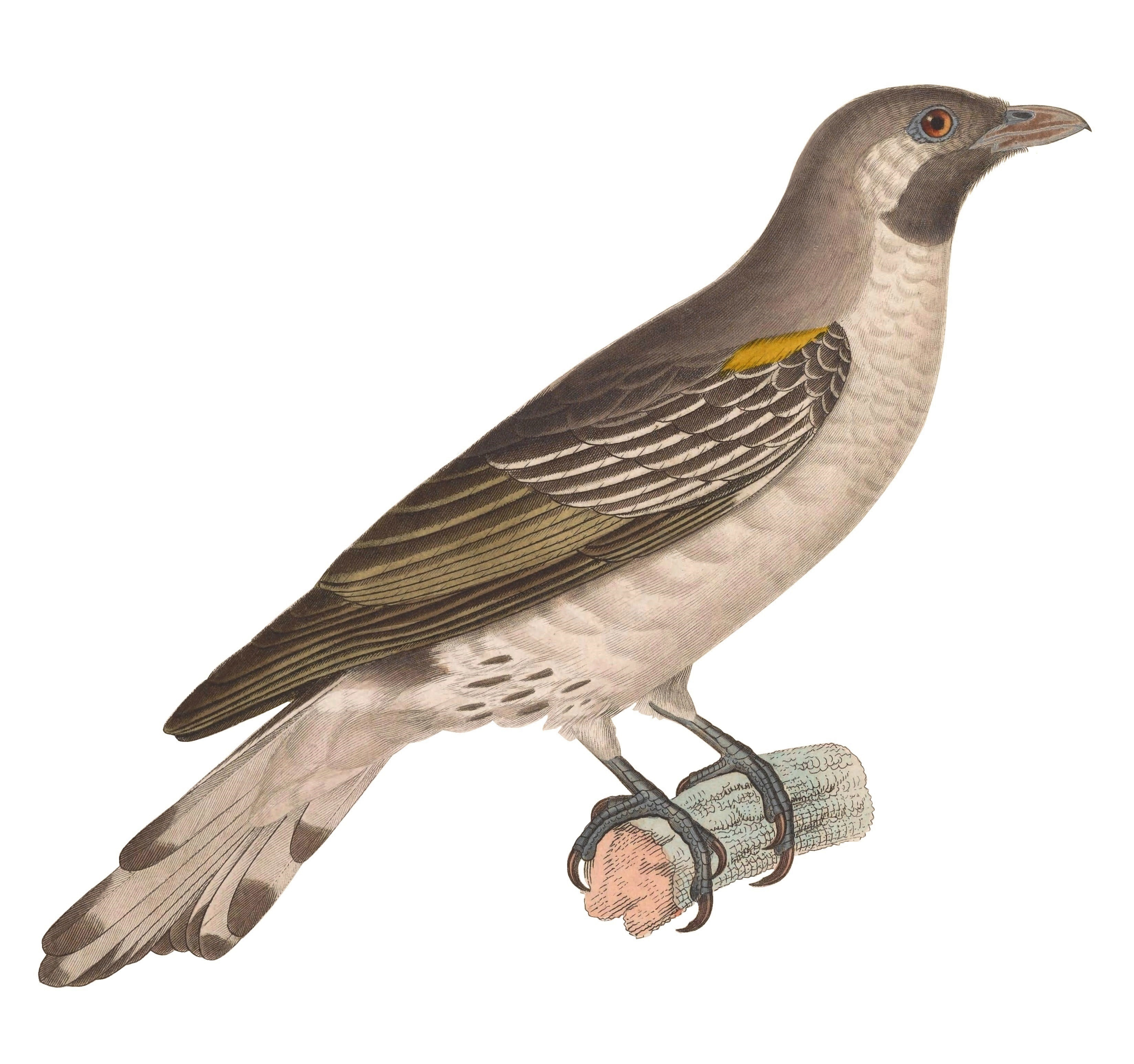 « Indicator albirostris » = Indicator indicator (Greater Honeyguide) - male